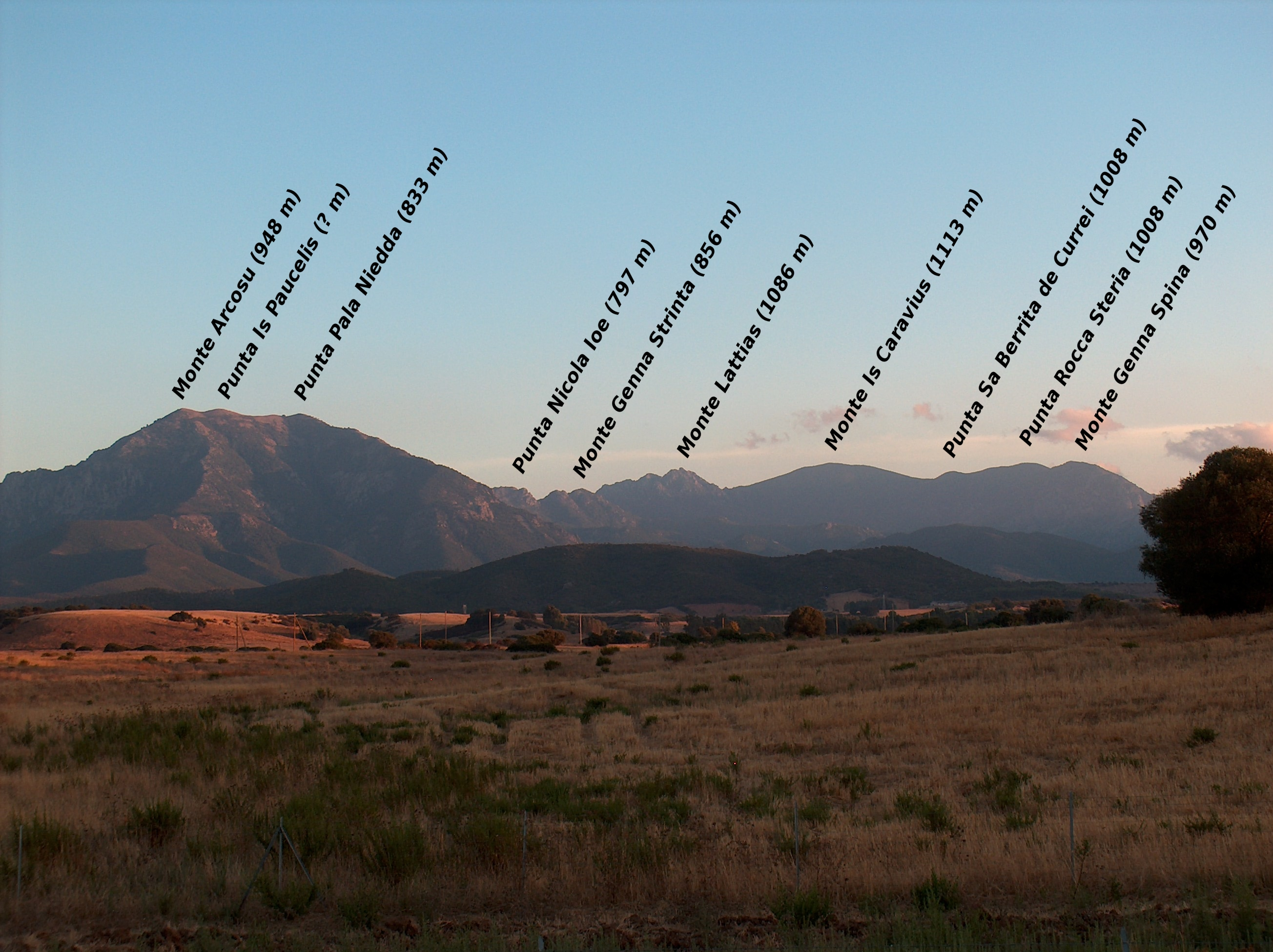 Mountains of Sulcis (Sardinia, Italy): map of profile (view from north, near Siliqua